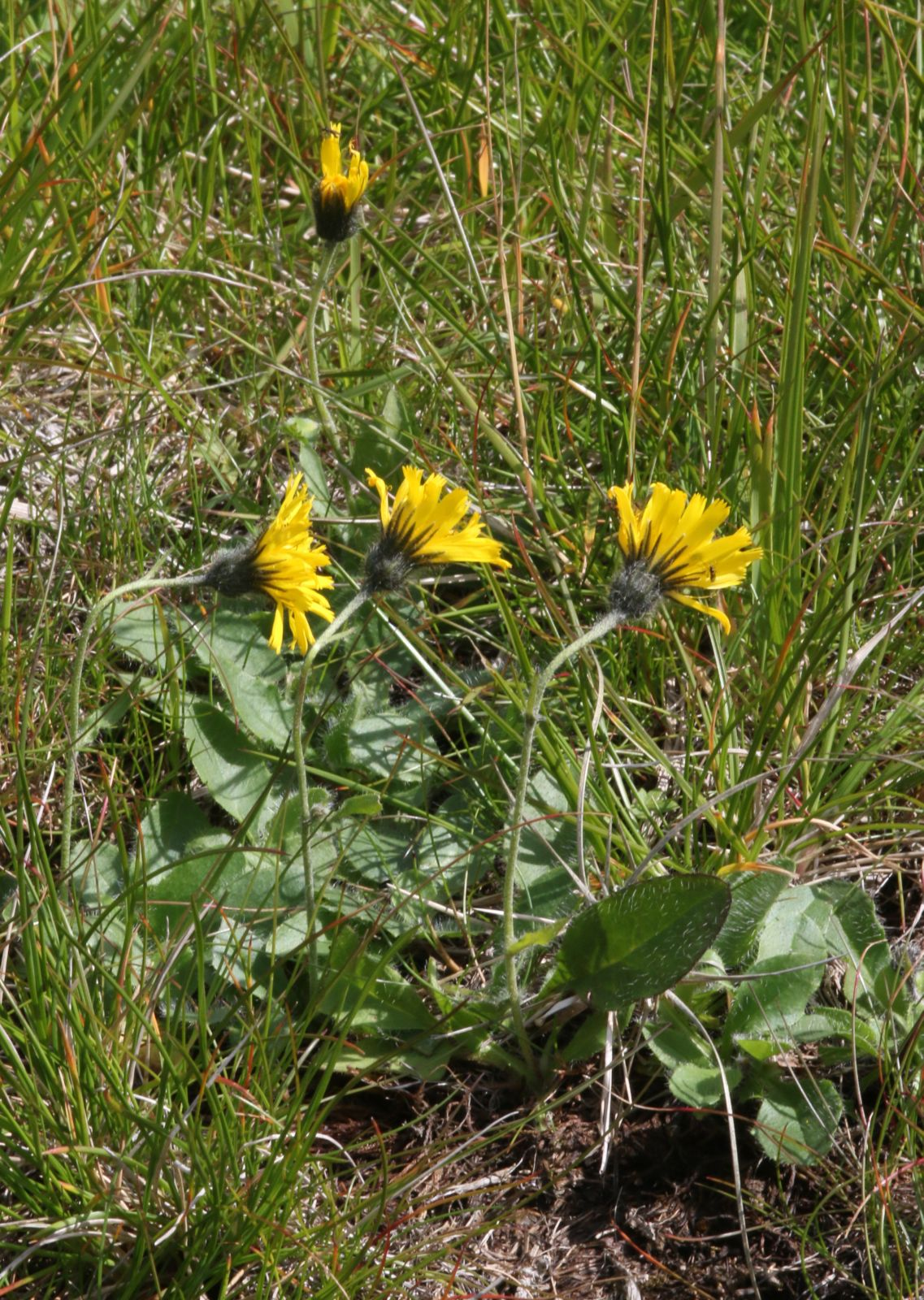 Flowering Hieracium decipiens in Modré sedlo, Krkonoše Mountains, Czech republic